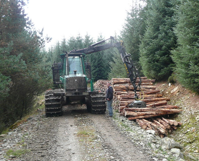 Stacking logs on forest track. This Polish worker was happy to use big equipment to haul the logs out of the forest and stack them by the track.